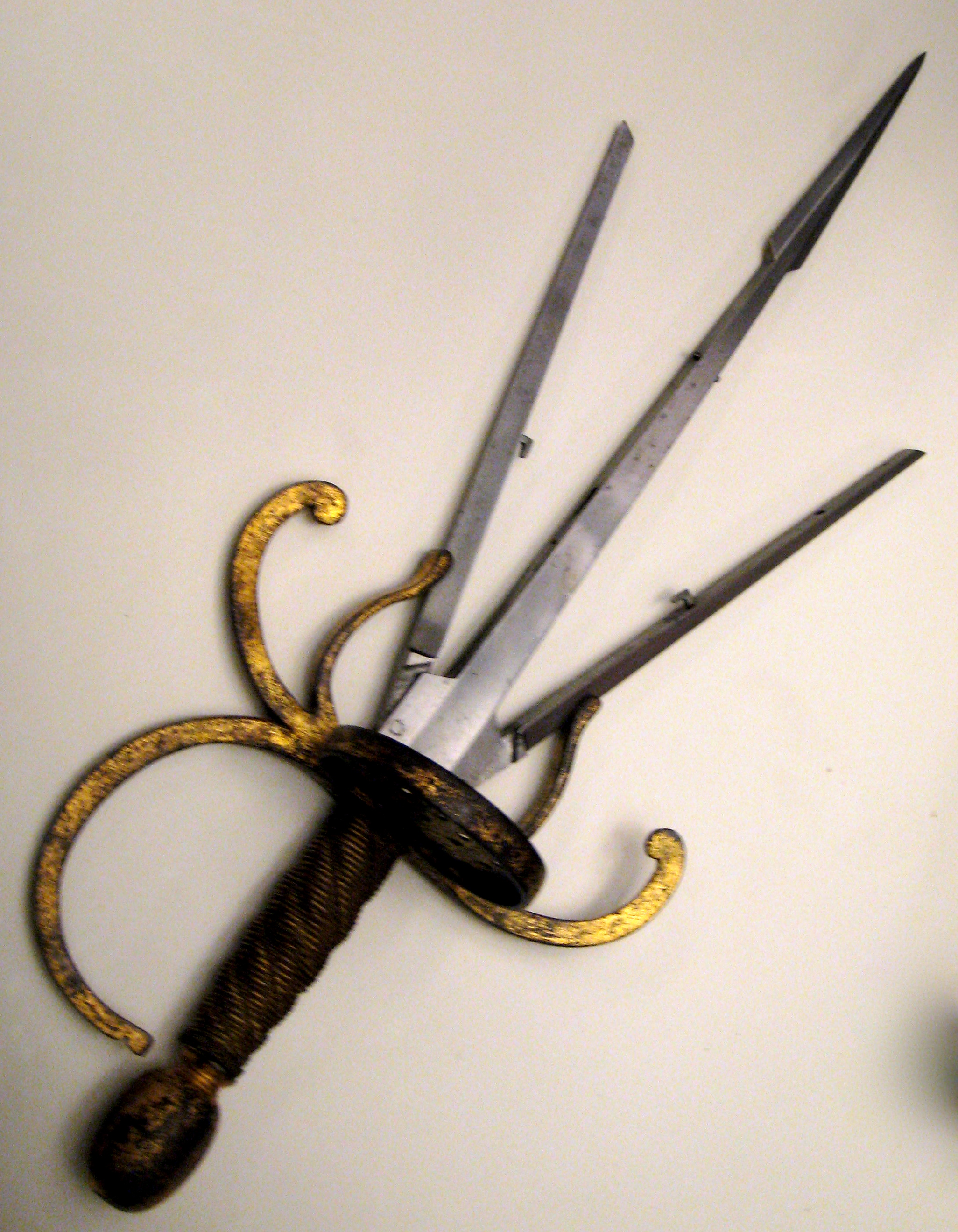 left hand dagger with spring blades that can be opened by pressing a button, c. 1620.